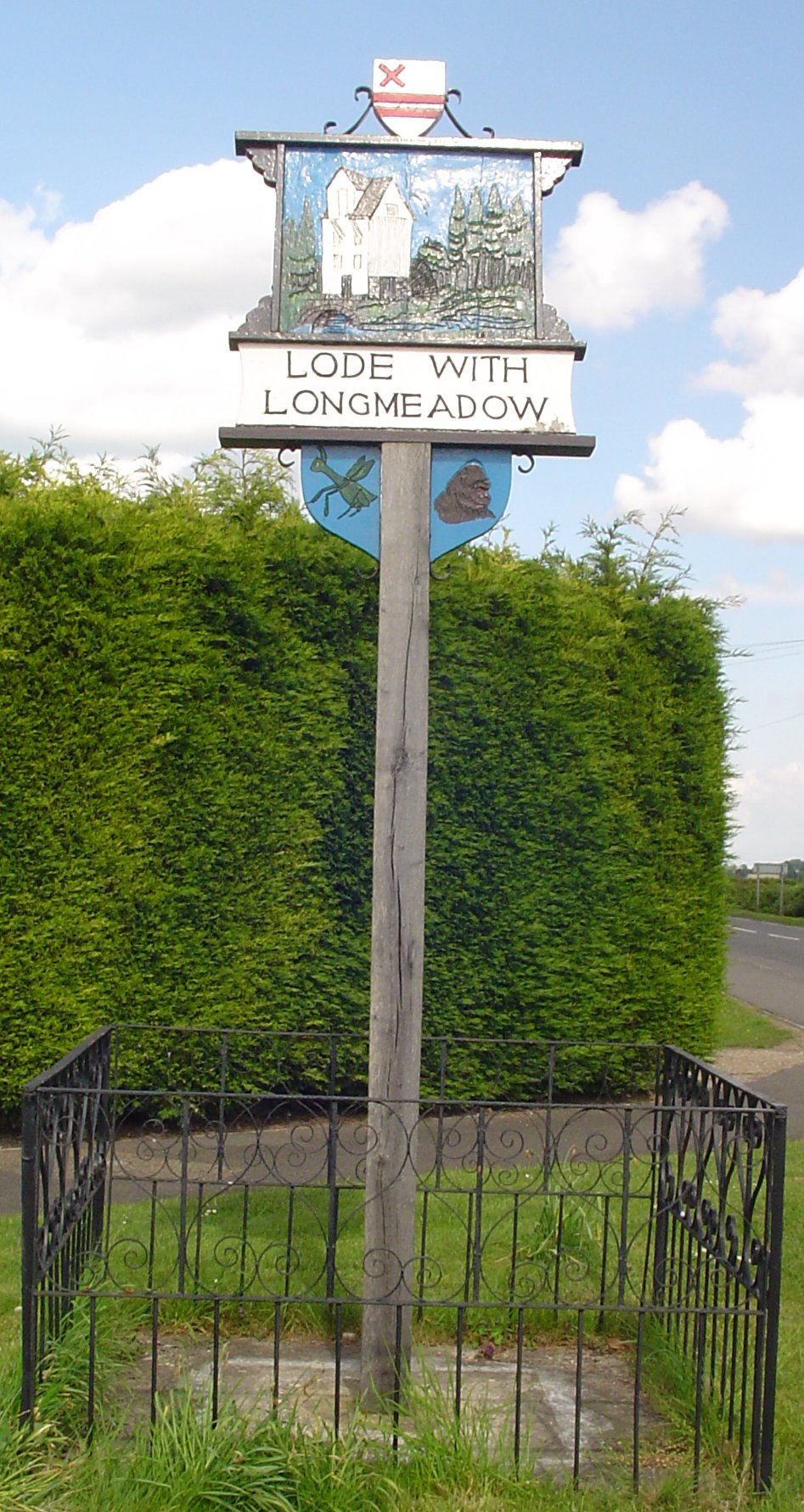 Signpost in Lode with Longmeadow